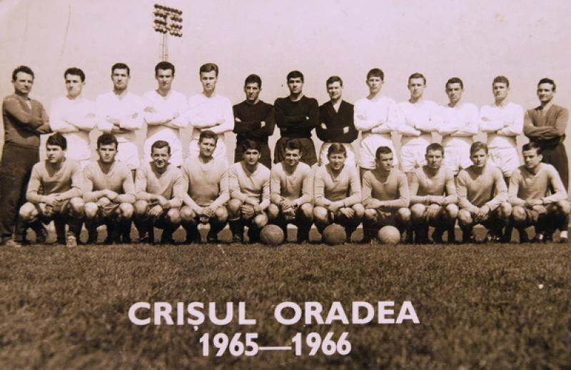 Crisul Oradea squad 1965-1966 Divizia A season